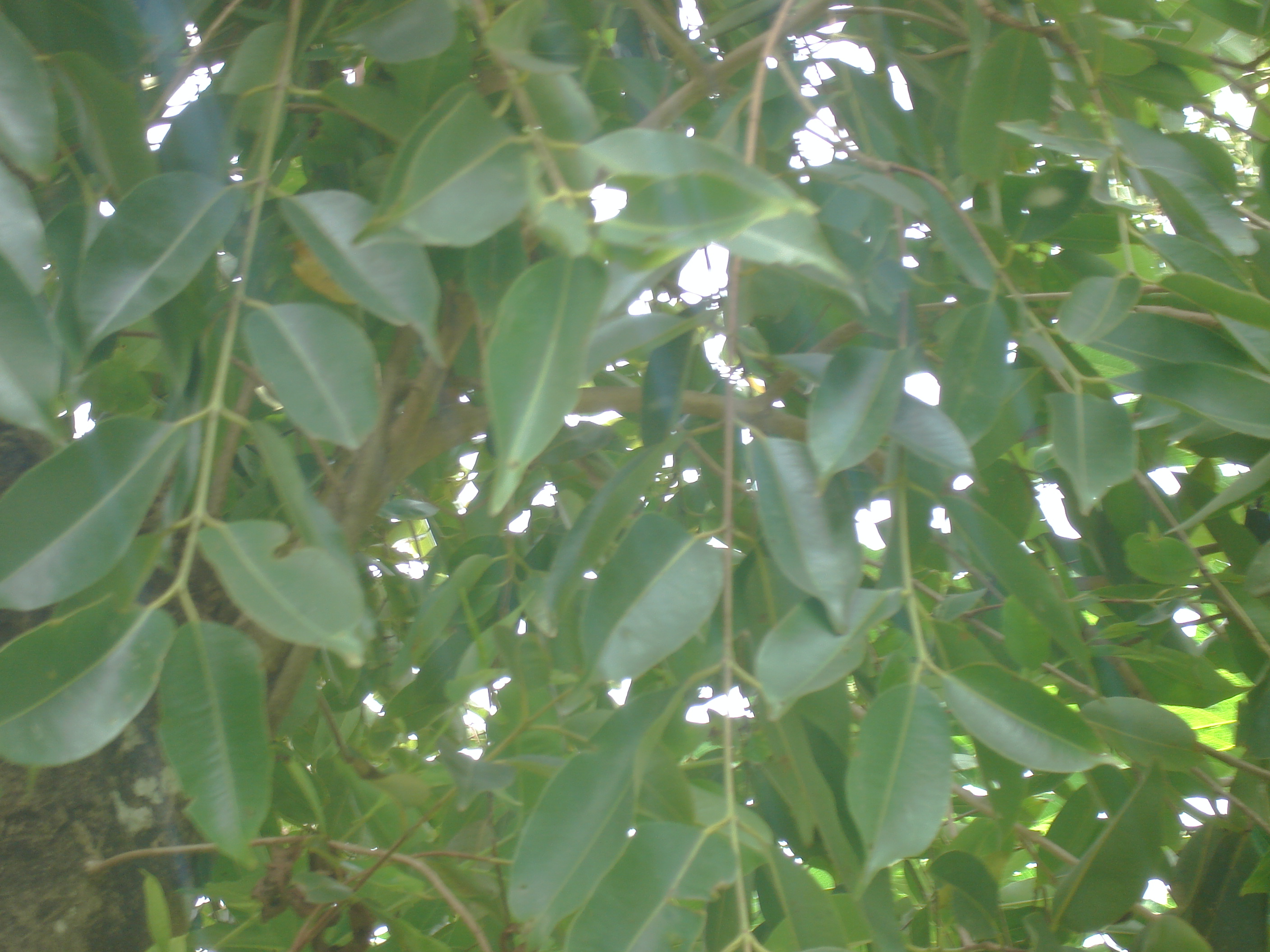 jaam foliage close view